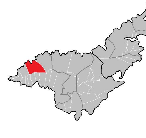 Locator maps of Fagamalo